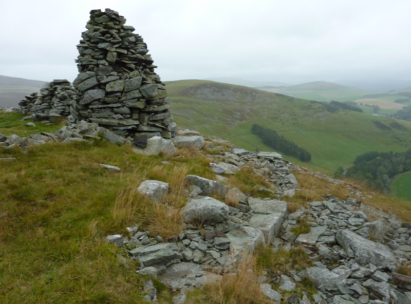 Bow Broch, Stow, Scottish Borders, Scotland. West side from from the north.